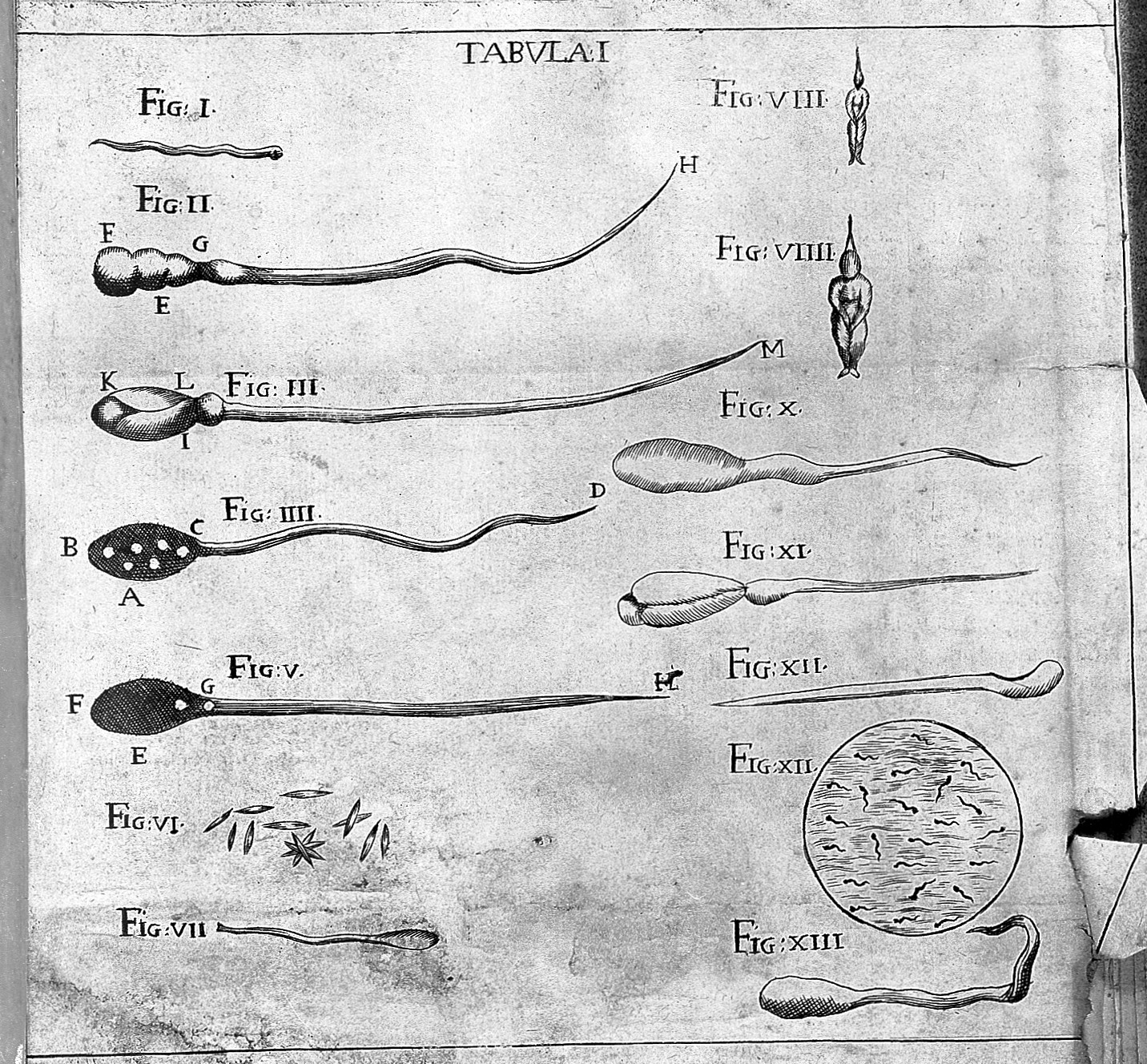 Figures of homunculi in semen. Rare Books Keywords: homunculi; Sperm; Semen